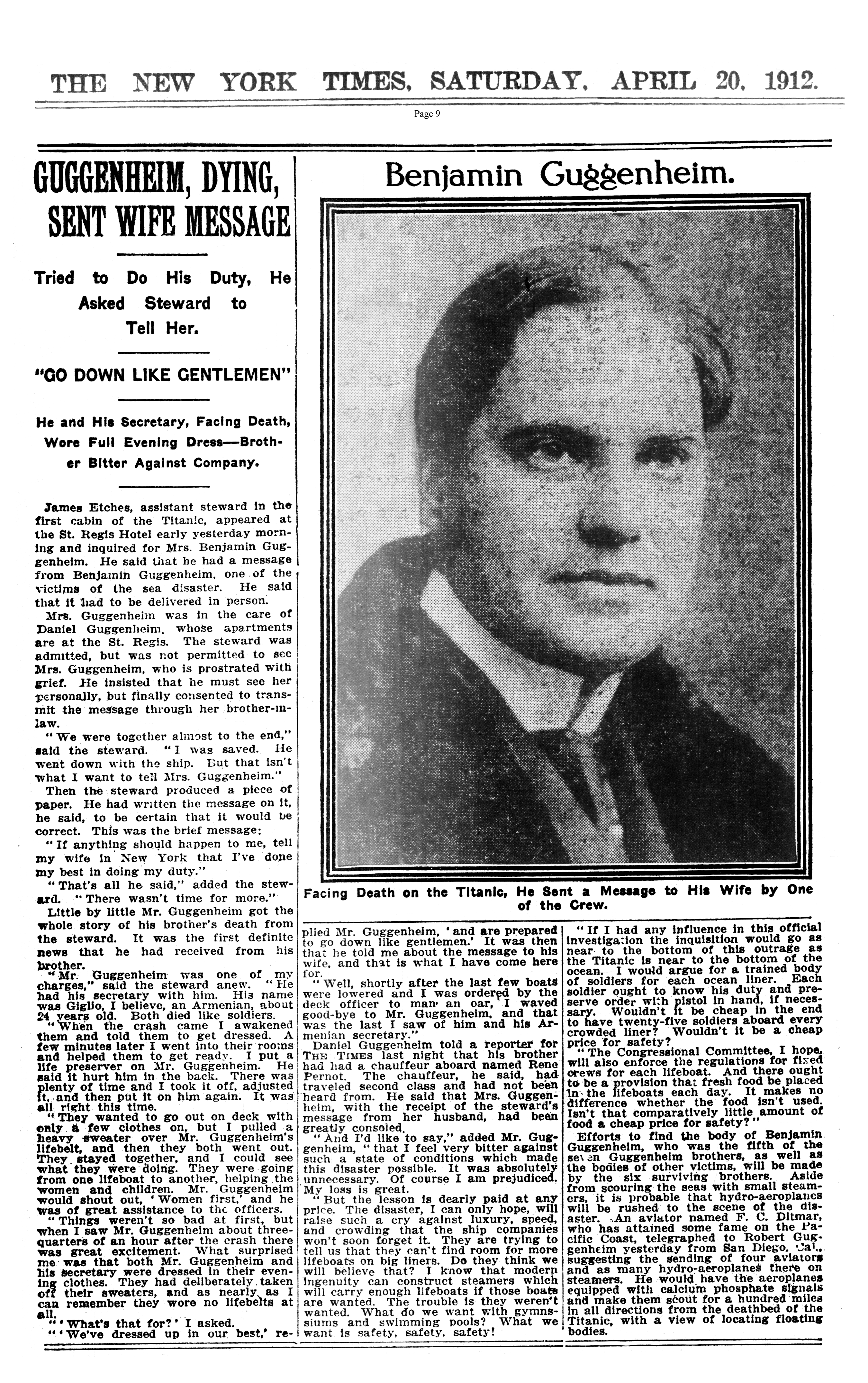 Article of April 20, 1912 in The New York Times describing events on the night of death of Benjamin Guggenheim on the RMS Titanic